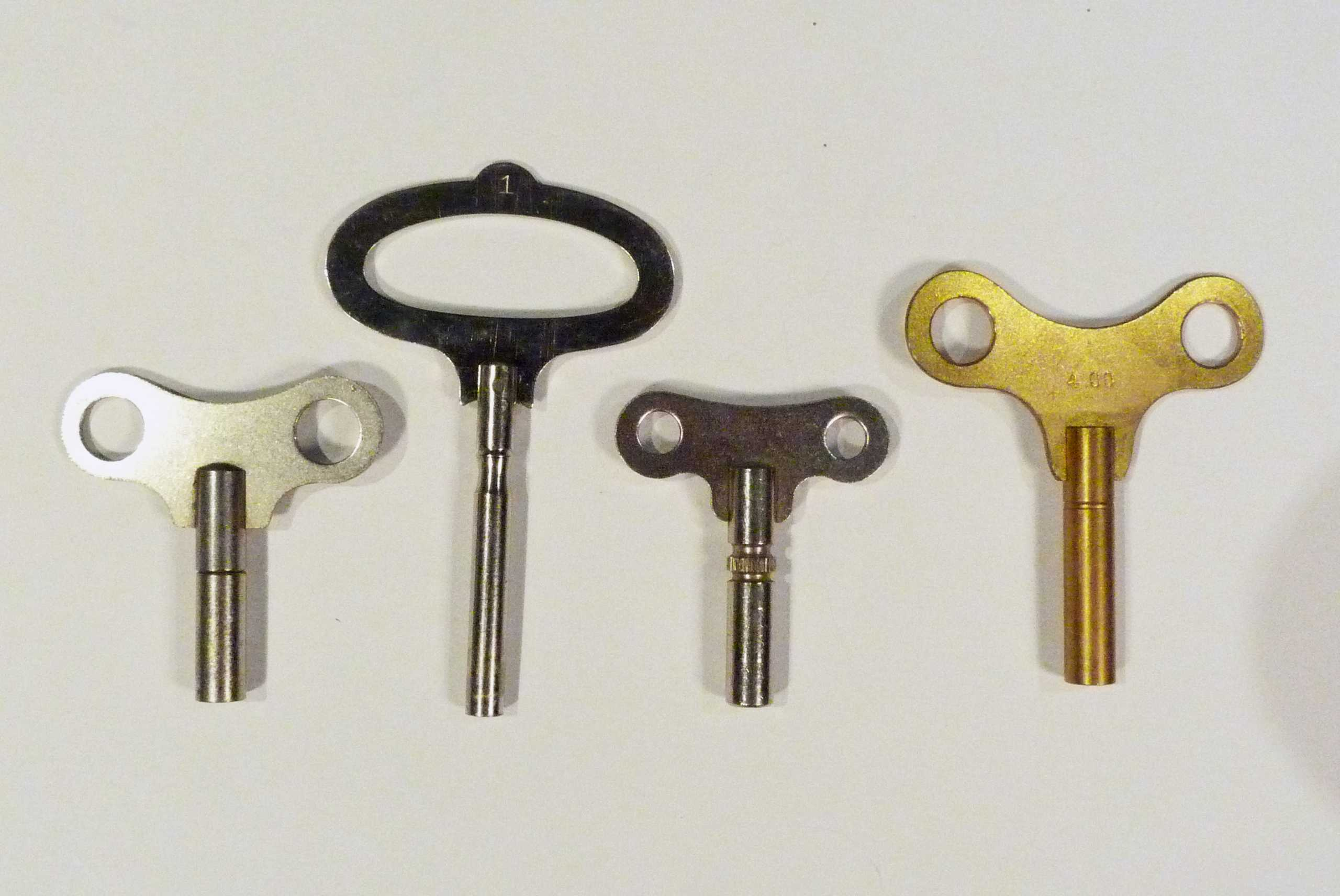 Modern clock winding keys (about 1960 - 2000)